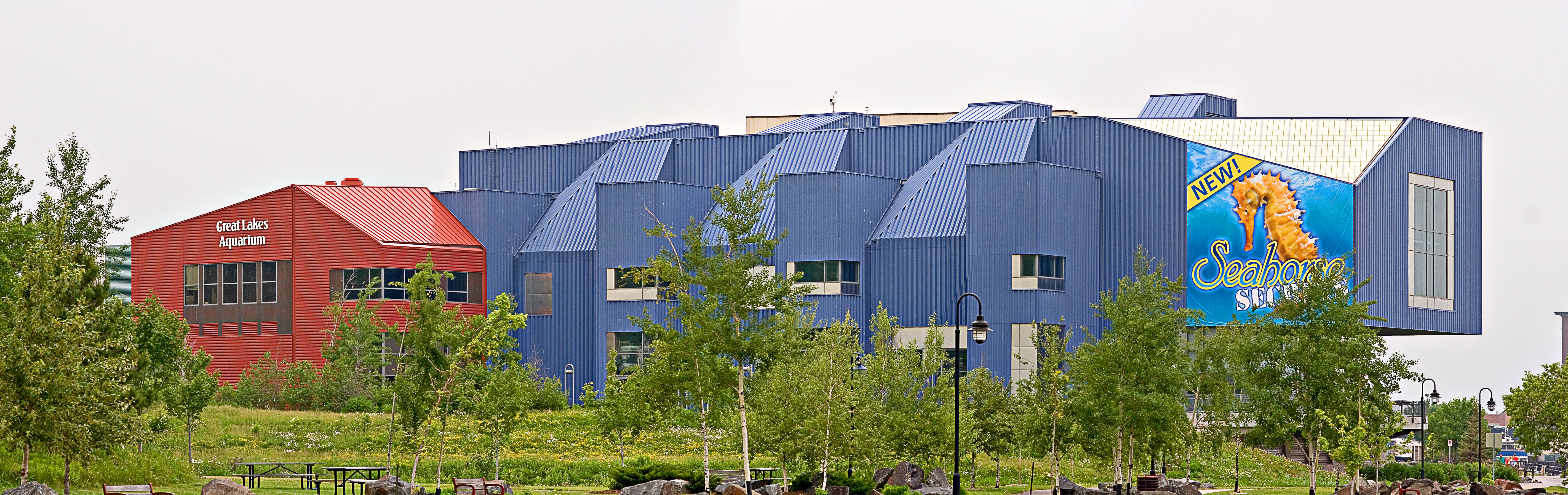 Great Lake Aquarium, Duluth, Minnesota